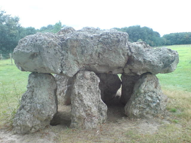 Dolmen of Maupertuis in France. This photo was taken on 18 August 2007.